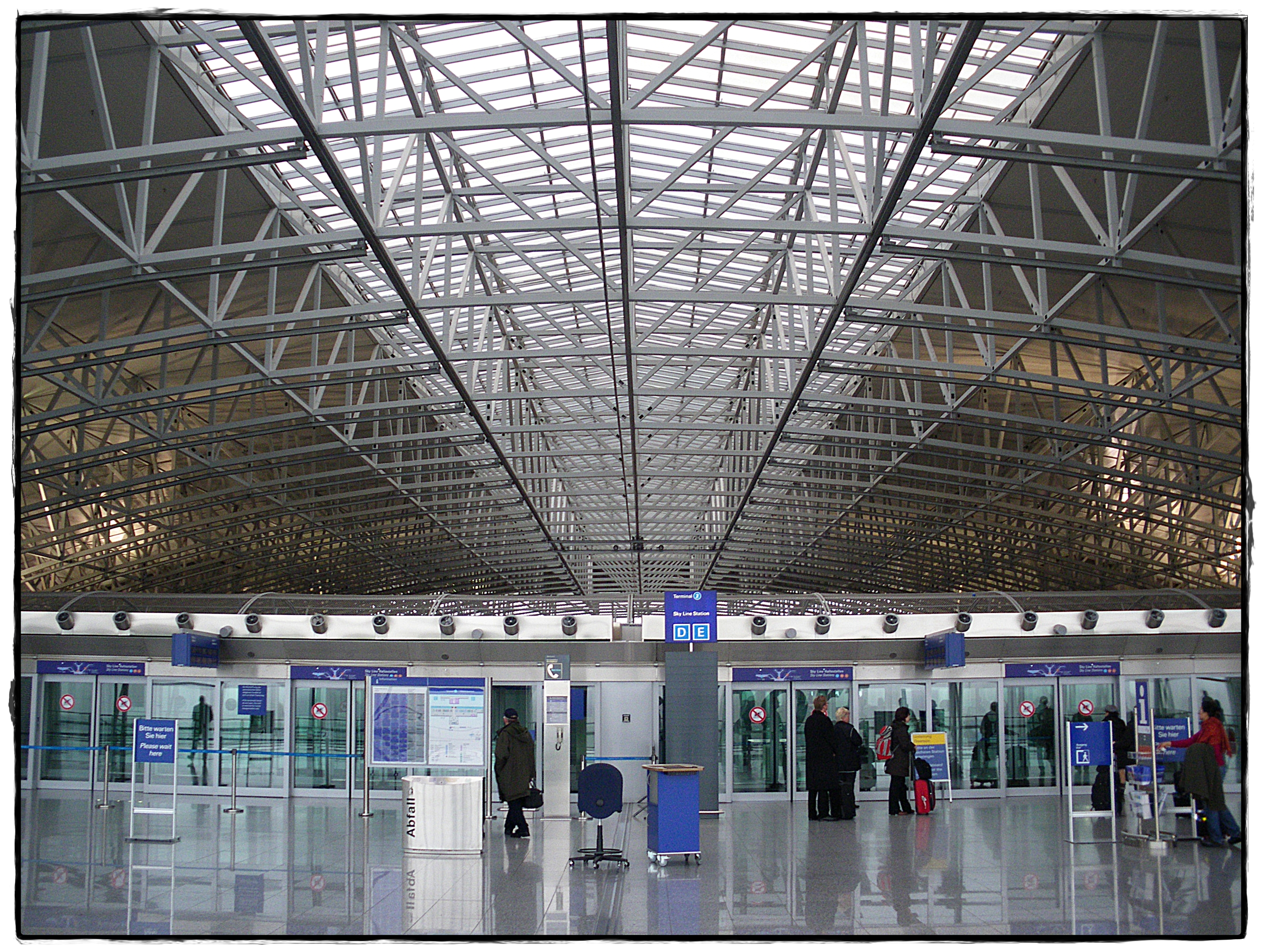 Frankfurt am Main Airport (IATA: FRA, ICAO: EDDF), known in German as Flughafen Frankfurt am Main or Rhein-Main-Flughafen is a major international airport located in Frankfurt am Main, Germany, 12 km (7.5 mi) southwest of the city centre.1 Run by Fraport, it is by far the busiest airport by passenger traffic in Germany, the third busiest in Europe and the ninth busiest worldwide in 2008. It serves the most international destinations in the world and is the busiest airport in Europe by cargo traffic. The southern side of the airport, Rhein-Main Air Base, was a major airlift base for the United States from 1947 until late 2005, when it was acquired by Fraport. The airport is directly located in the Frankfurt Rhine Main Region, Germany's second largest metropolitan area, which itself has a central location in the densely populated region of west-central Europe. Thereby, along with a strong rail and motorway connection, the airport serves as a major transportation hub to the greater region, less than two hours by ground to Cologne, the Ruhr Area, and Stuttgart. There are plans to expand Frankfurt Airport with a fourth runway and a new Terminal 3. First modifications to the airport to make it Airbus A380 compatible are completed, including the first building of a large A380 maintenance facility near the former U.S. Air Base. The work on the fourth runway has been delayed several times due to environmental concerns, but received zoning approval in December 2007. The runway could be in operation by 2010. Frankfurt is a hub of Lufthansa, the German national carrier and Air India for its North American services. Lufthansa's secondary hub is Munich Airport where many key medium and long haul routes are available, lessening the need to overburden Frankfurt Airport.